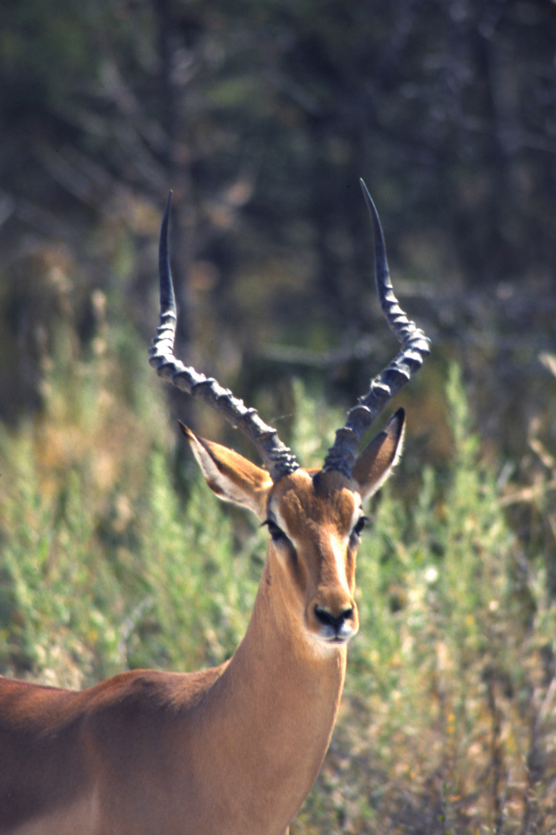 Male Impala in the Nxai Pan National Park, Botswana